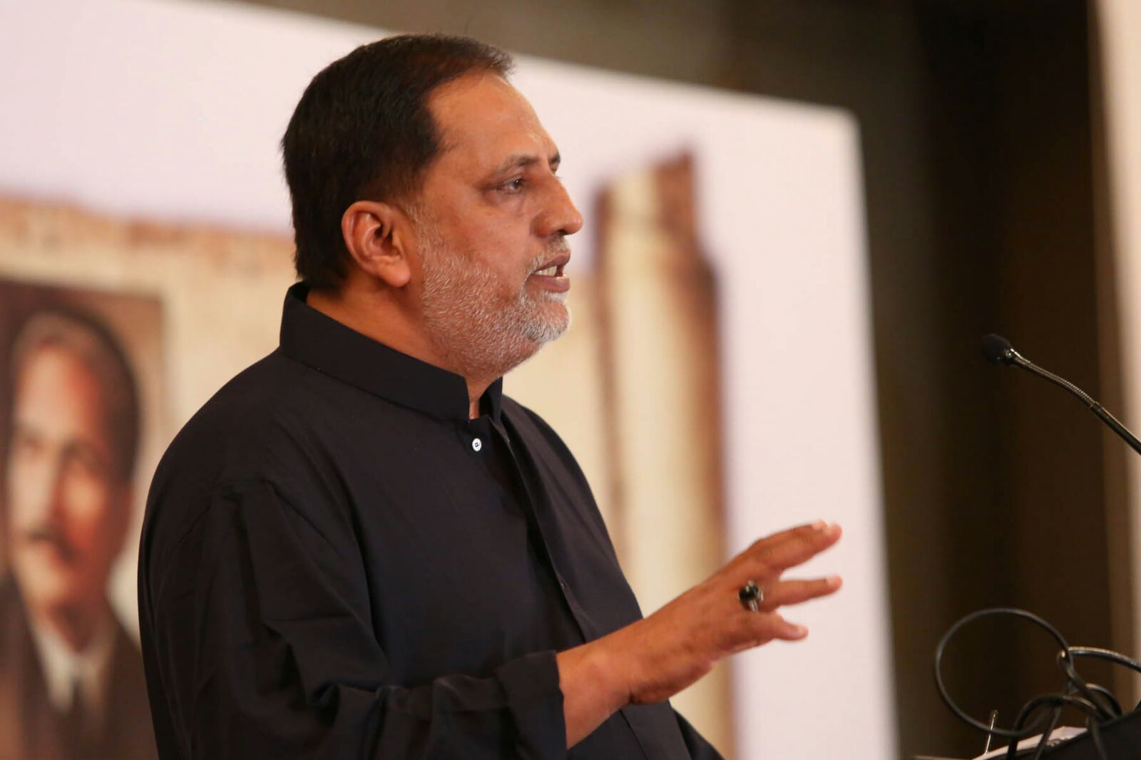 Release of "Shikwa And Jawaab Shikwa", Translated to English by Mr. Abdussalam Puthige.